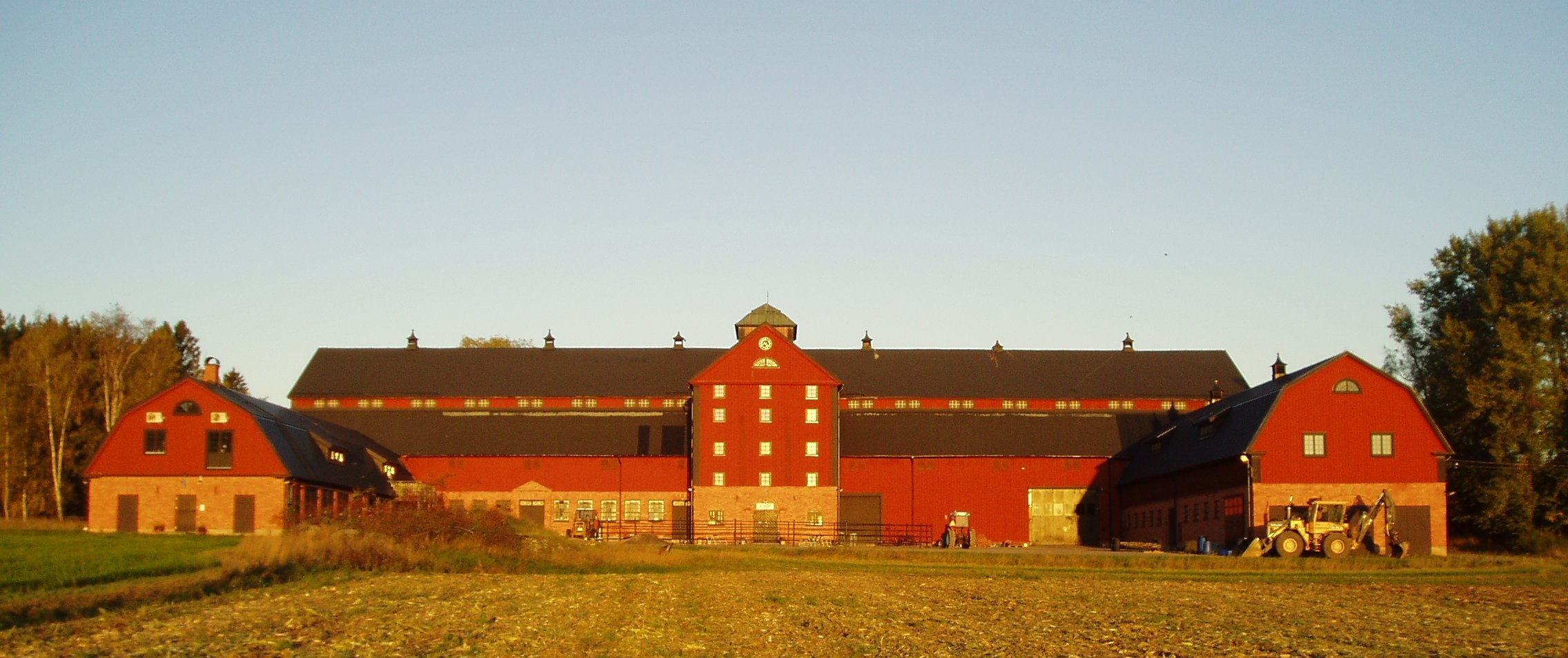 Warehouse at Kalvandö mansion, Värmdö municipality, Sweden